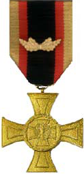 Badge of Honour of the Bundeswehr